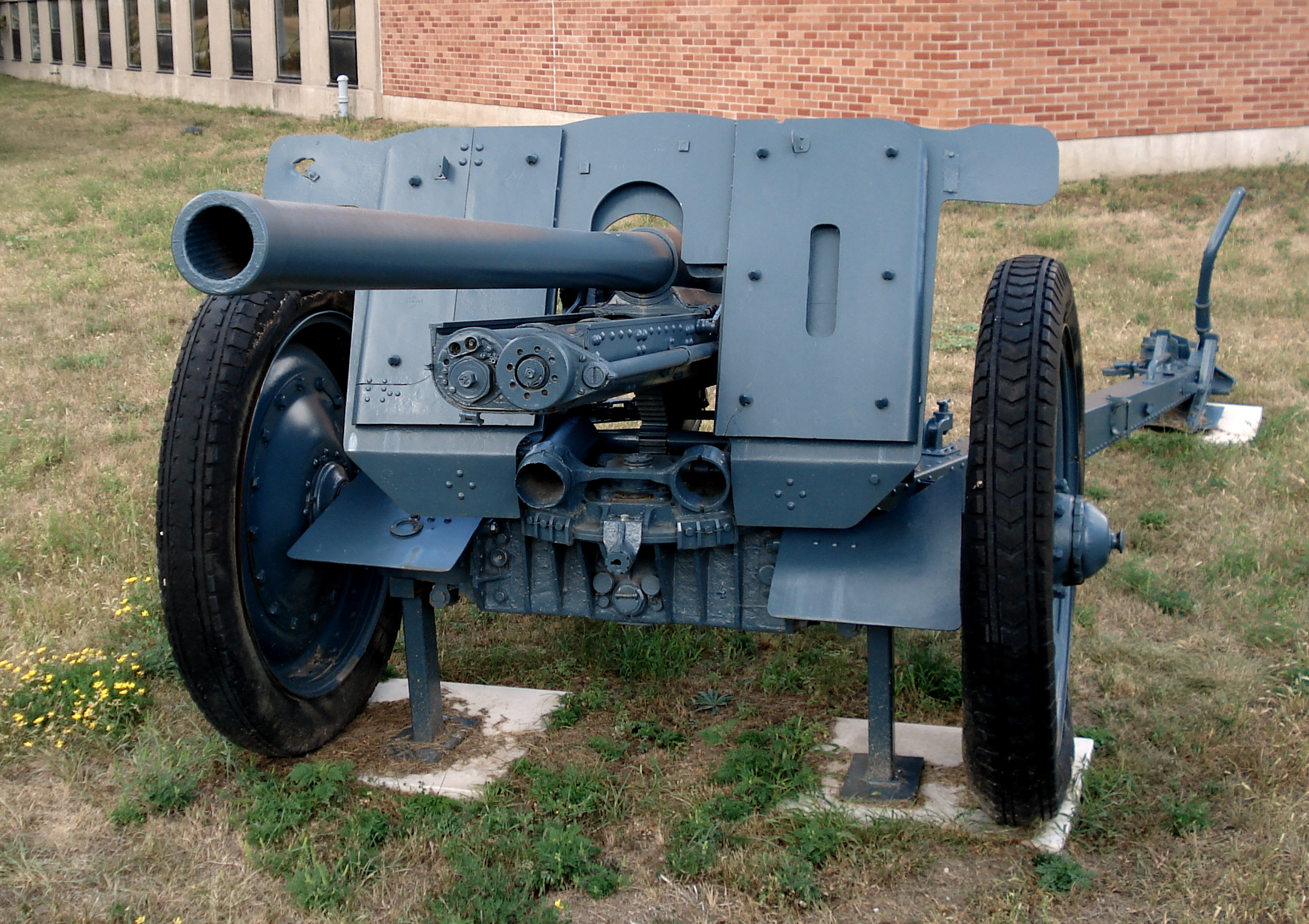 German Pak 36(r) 76,2 mm anti-tank gun, obtained from converting captured Soviet F-22 76 mm guns. This example is displayed on the grounds of CFB Borden (Base Borden Military Museum). Photo taken on August 18, 2006. Source: Photo by me, User:Balcer.